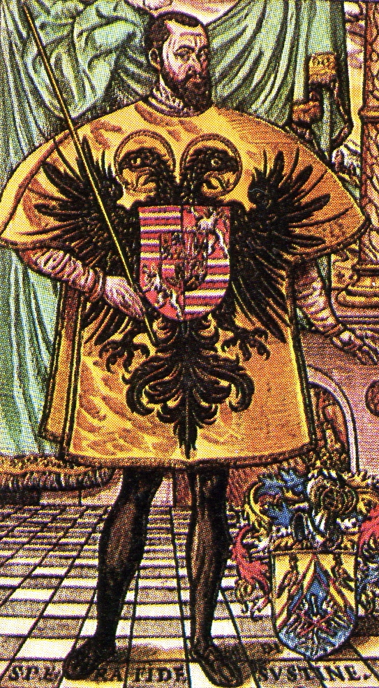 Hans von Francolin (1522-1586) serving as a herald to the Holy Roman Emperor in 1560.